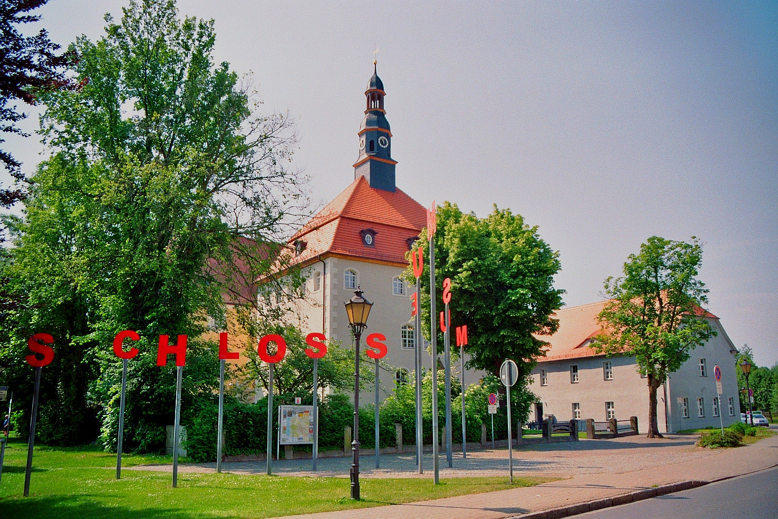 Museum Lübben Castle in Lübben, Landkreis Dahme-Spreewald, Brandenburg, Germany.